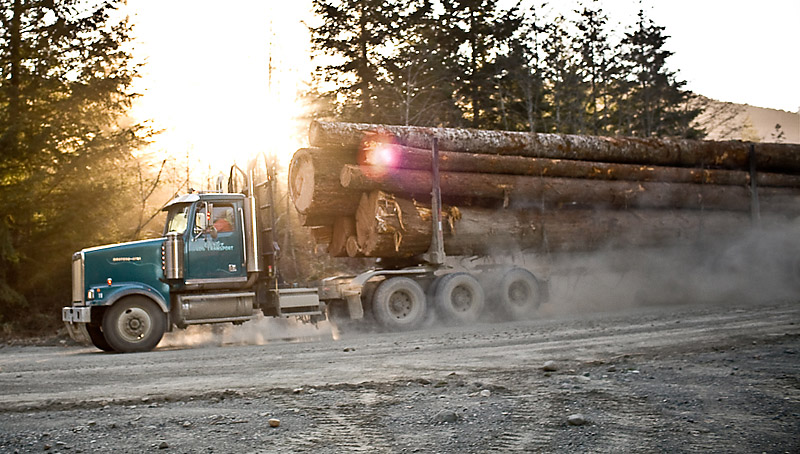 A logging truck loaded with old-growth Douglas fir, redcedar, and hemlock leaves the Gordon River Valley near Lake Cowichan, BC. 90% of the valley bottom ancient forests have been stripped from Vancouver Island and the Gordon River is quickly losing what little it still contains.